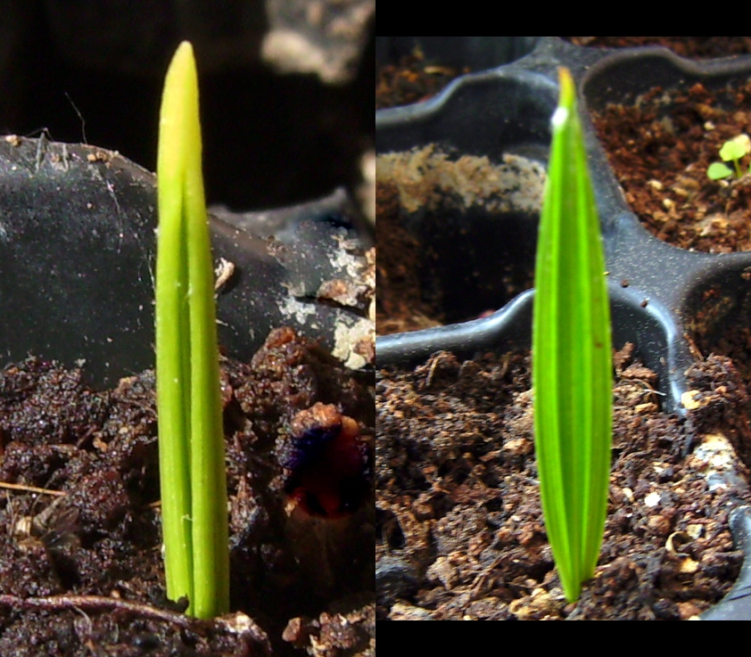 Chamaerops humilis (Dwarf palm) evolution, the left image is the cotyledon (april 9) and the image at right is three weeks later, year 2011, Barcelona, Catalonia.